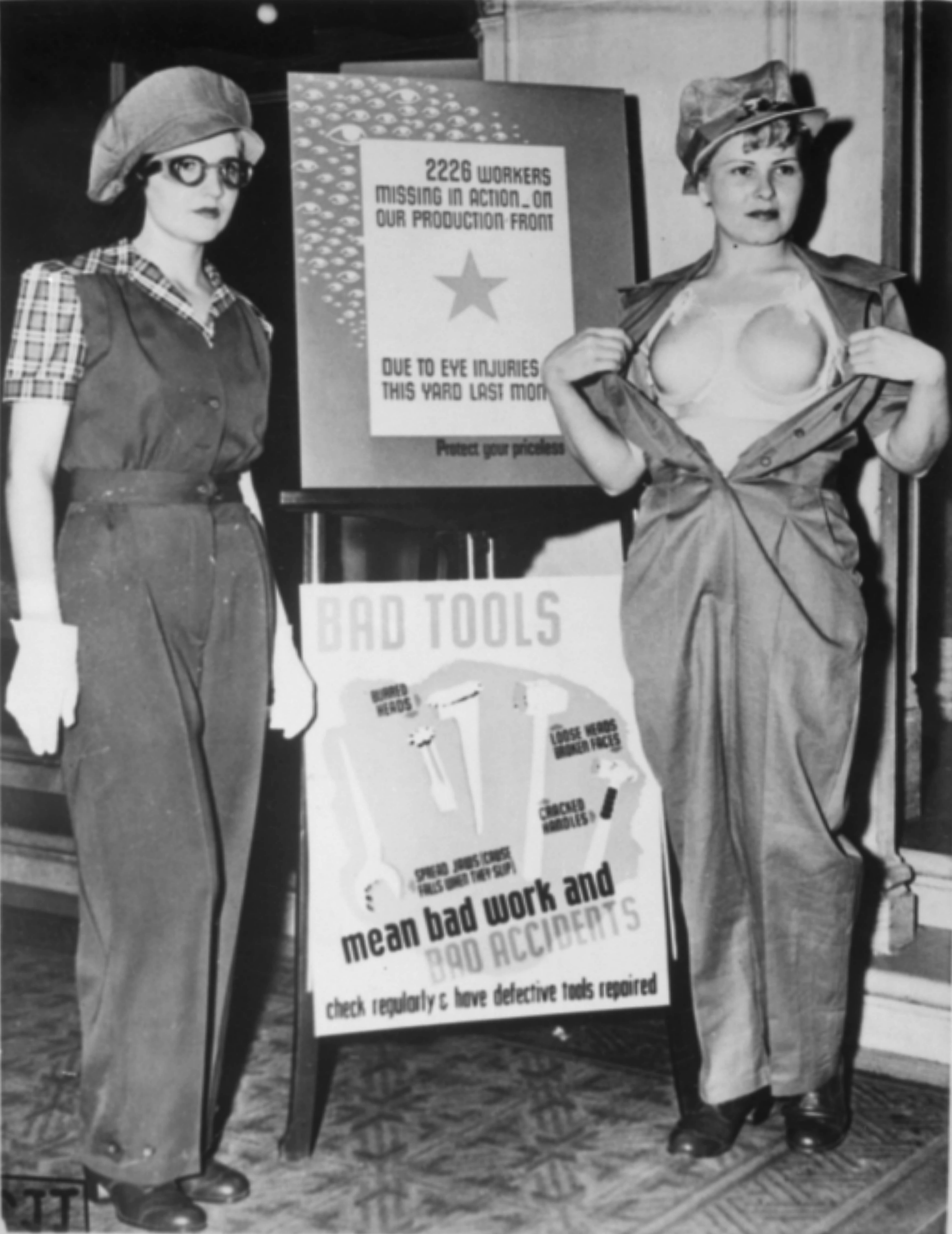 General notes: Use War and Conflict Number 814 when ordering a reproduction or requesting information about this image.